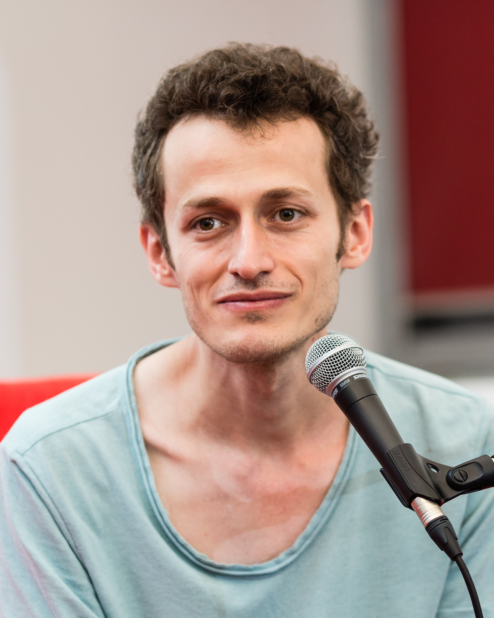 Davit Gabunia on Authors’ Reading Month 2017, Wrocław, Poland